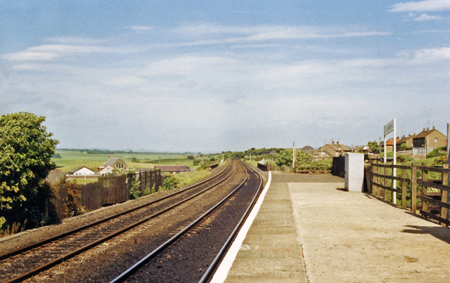 Cardenden Station, Near Fife, Great Britain. View ENE, towards Thornton Junction; ex-NBR Dunfermline - Thornton Junction secondary main line. (Since 6/10/69, when Thornton Junction station was closed, trains have run to Methil).